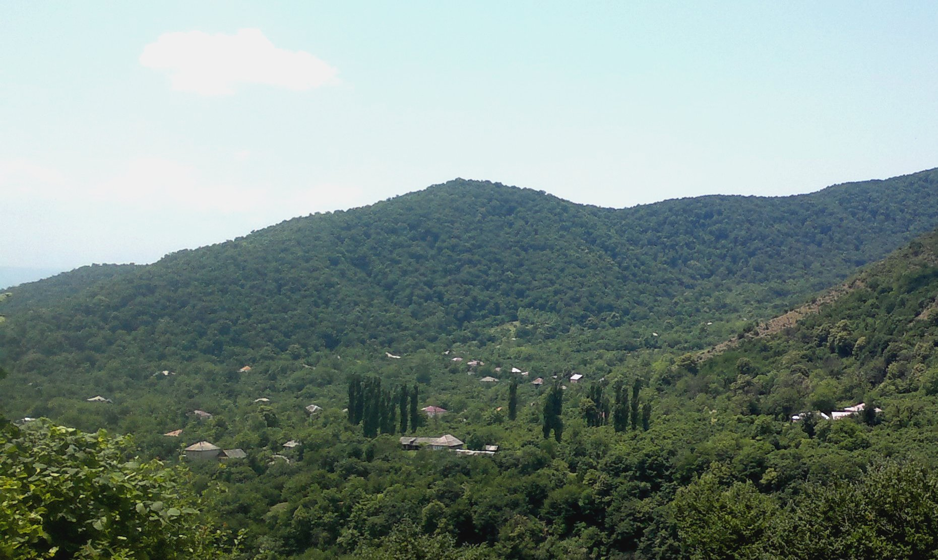 Yukhary Chardakhly village in Zagatala Rayon of Azerbaijan